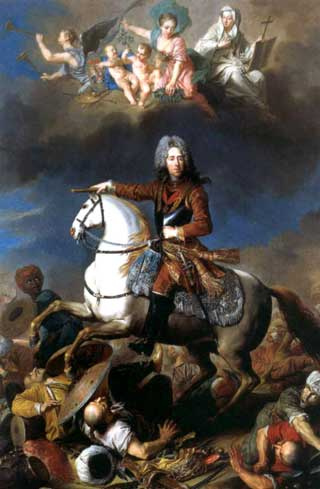 François-Eugène, Prince of Savoy-Carignan was one of the most brilliant generals in the history of the Habsburg Empire.